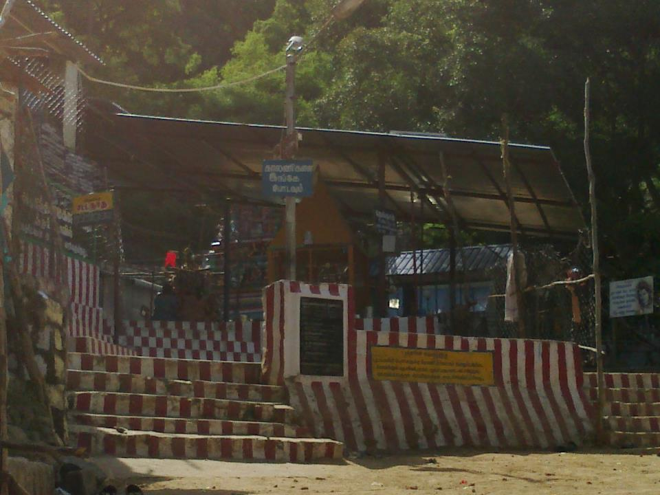 Santhana MahaLingam Temple Complex, at Sathuragiri, Western Ghat, Madurai District